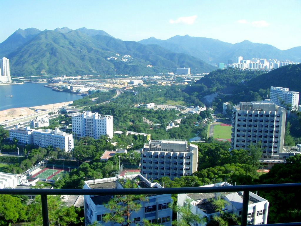 Chinese University of Hong Kong as viewed from New Asia College. Photo by Tsui Sing Yan Eric (rseric)